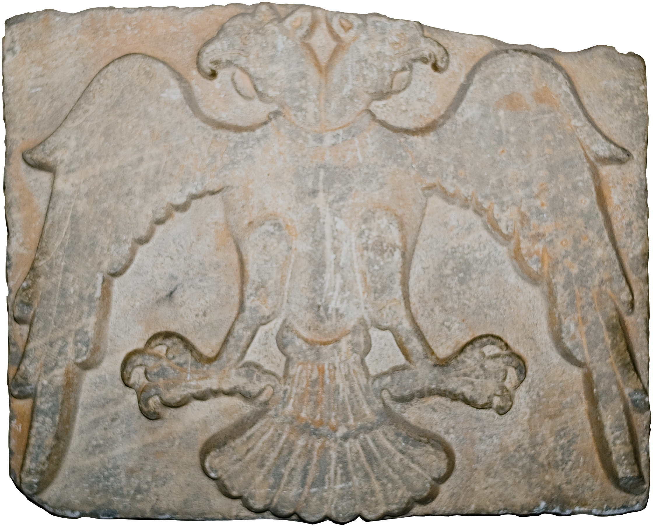 A double-headed eagle relief, 13th-century (Seljuk/Ayyubid period) architectural fragment found at Konya (now in Ince Minare Museum). It has also been suggested that the double-headed eagle may have been used as "personal insignia" by sultan Kayqubad I (r. 1220–1237).[1] This particular design has come to be seen as "symbol of Konya"[2] and is closlely associated with Konya's role as historical Seljuq capital. "The double eagle in the city's coat of arms is a symbol of the Seljuk reign a period crucial for Konya's self-perception until today."[3] A re-drawing of the same design is used as an official emblem by the municipality[4] An independent redrawing is used in the logo of Selçuk University, Konya, Turkey.